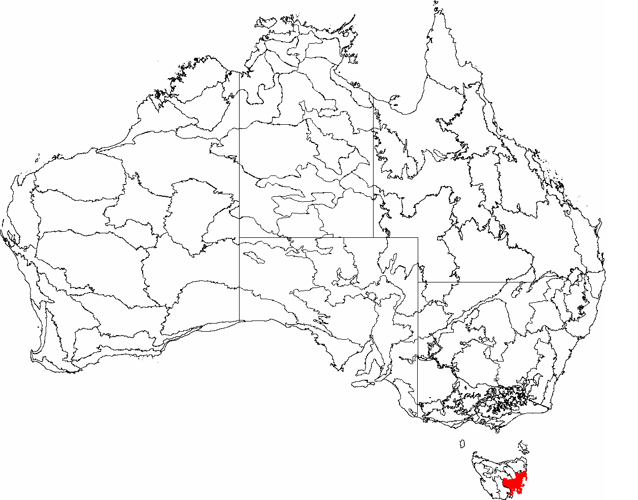 This is a map of the Interim Biogeographic Regionalisation of Australia (IBRA), with state boundaries overlaid. The Tasmanian South East region is shown in red.